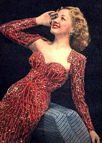 Photo of actress Olga San Juan from the New York Sunday News. Date is at the upper right corner of the uncropped photo.